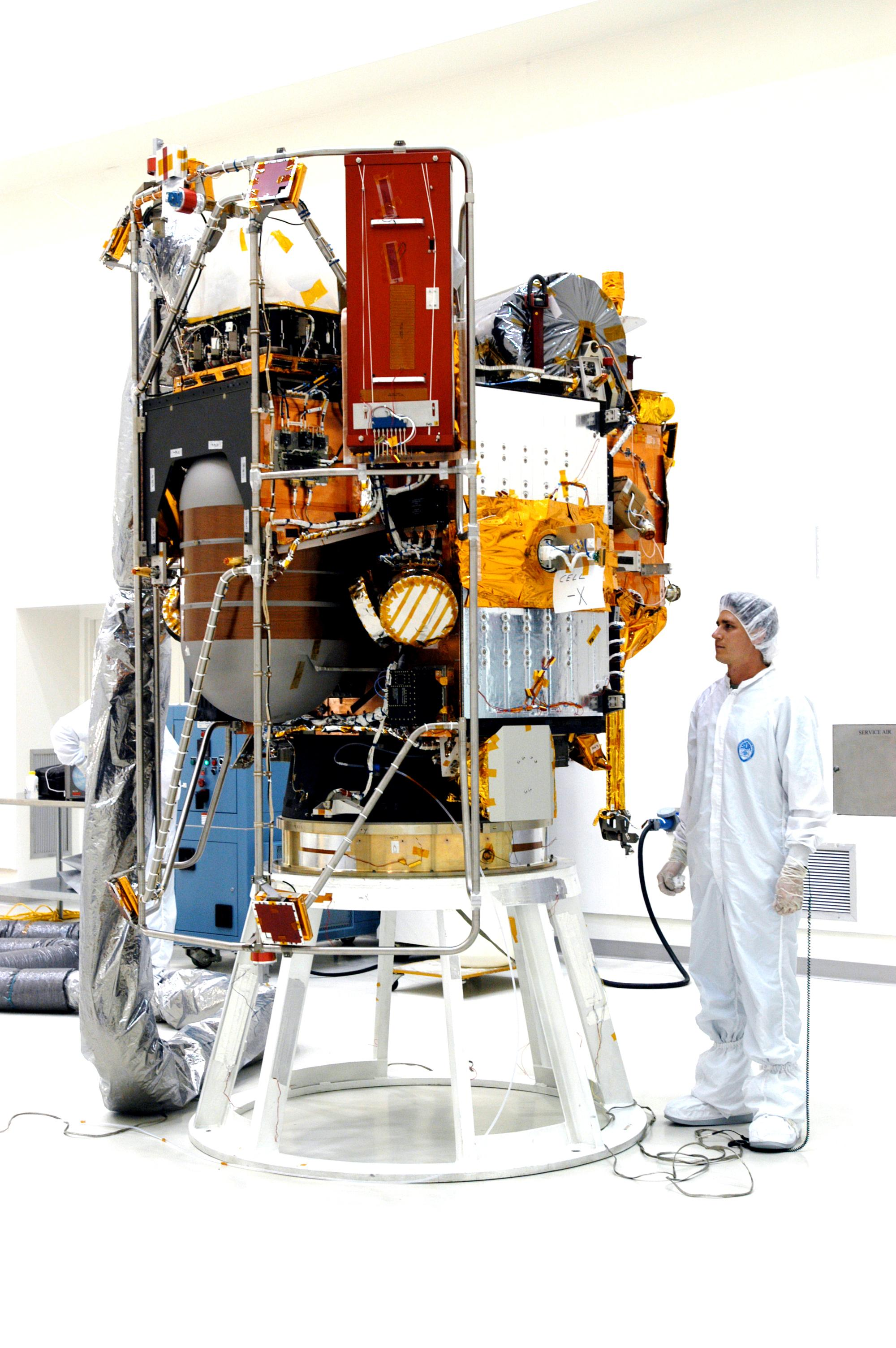 KENNEDY SPACE CENTER, FLA. - - A technician at Astrotech Space Operations in Titusville, Fla., checks the MESSENGER (Mercury Surface, Space Environment, Geochemistry and Ranging) spacecraft after its move to a stand inside the nonhazardous payload processing facility. Final assembly and testing will be completed at this site. The spacecraft will return to the hazardous processing facility when ready for fueling, spin balance testing and mating to the upper stage. MESSENGER is scheduled to launch no earlier than July 30 from Cape Canaveral Air Force Station. MESSENGER is a scientific investigation of the planet Mercury, the least explored terrestrial planet. Understanding Mercury and how it was formed is essential to understanding the other terrestrial planets and their evolution. The MESSENGER mission will orbit Mercury after making two flybys of the planet, using data collected during the flybys as an initial guide to perform a more focused scientific investigation of this mysterious world. The spacecraft will enter Mercury orbit in March 2011 and carry out comprehensive measurements for one full Earth year.